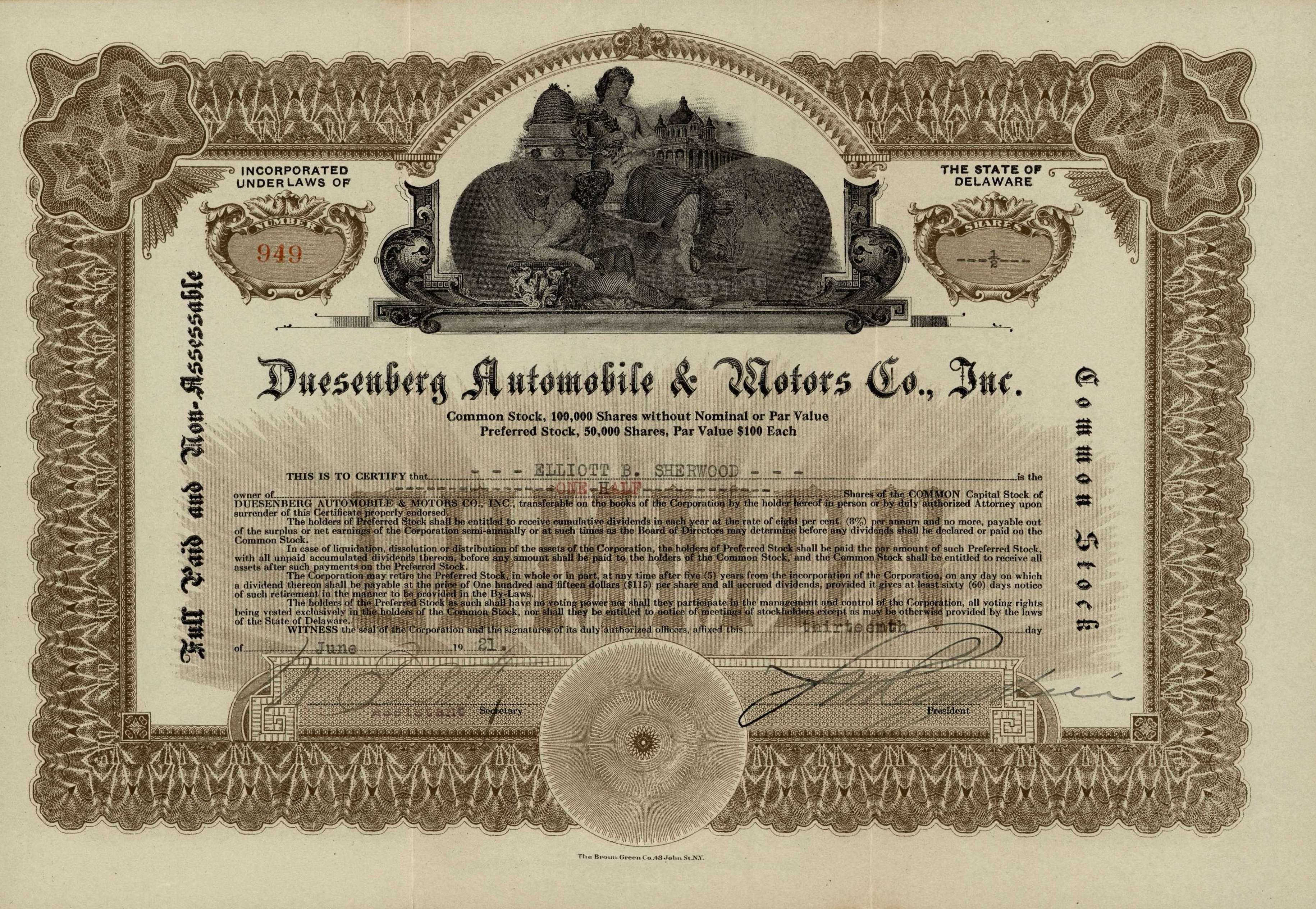 Share of the Duesenberg Automobile & Motors Co., issued 13. June 1921